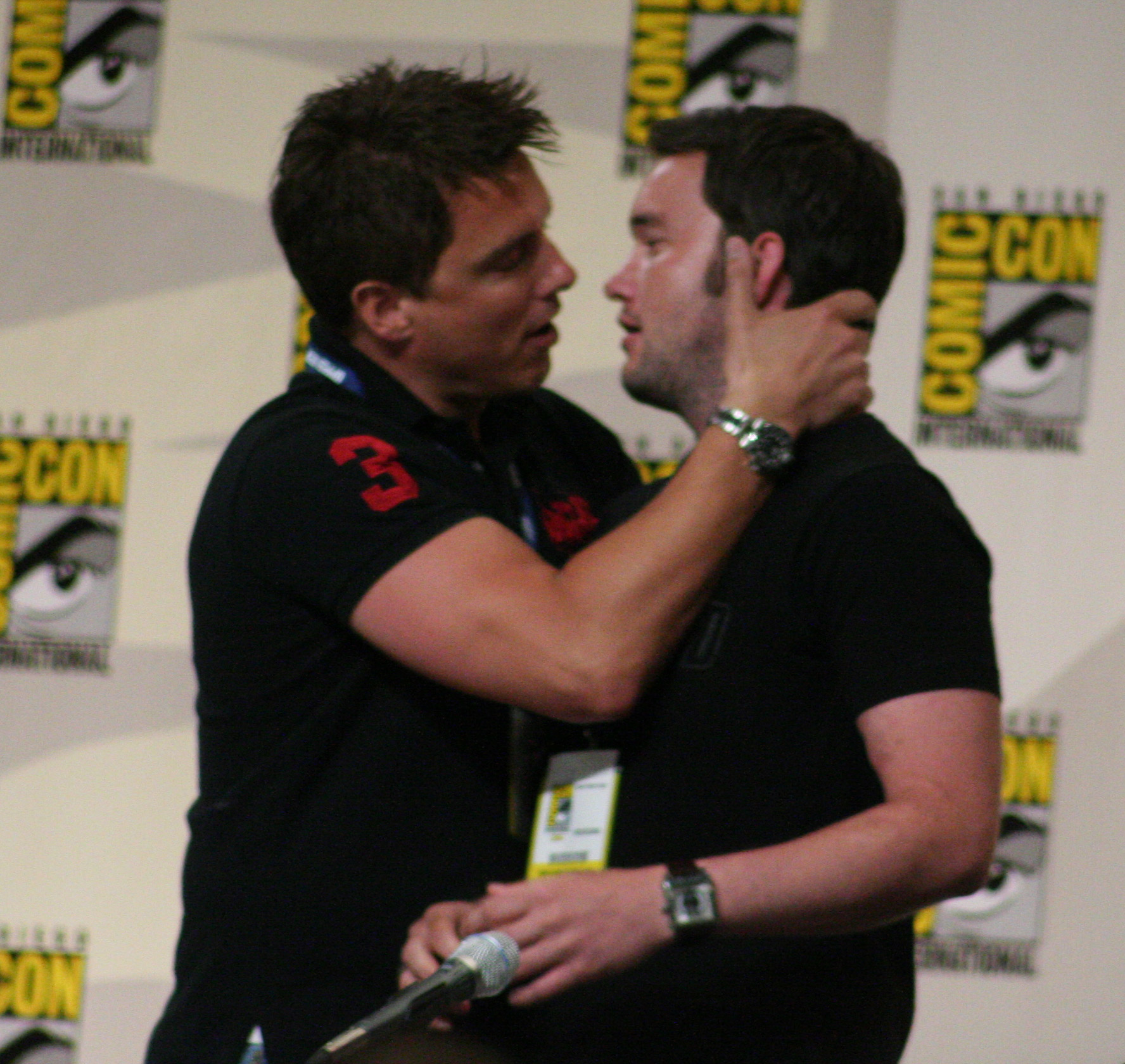 John Barrowman and Gareth David-Lloyd going in for a kiss at the Comic Con convention (2008)